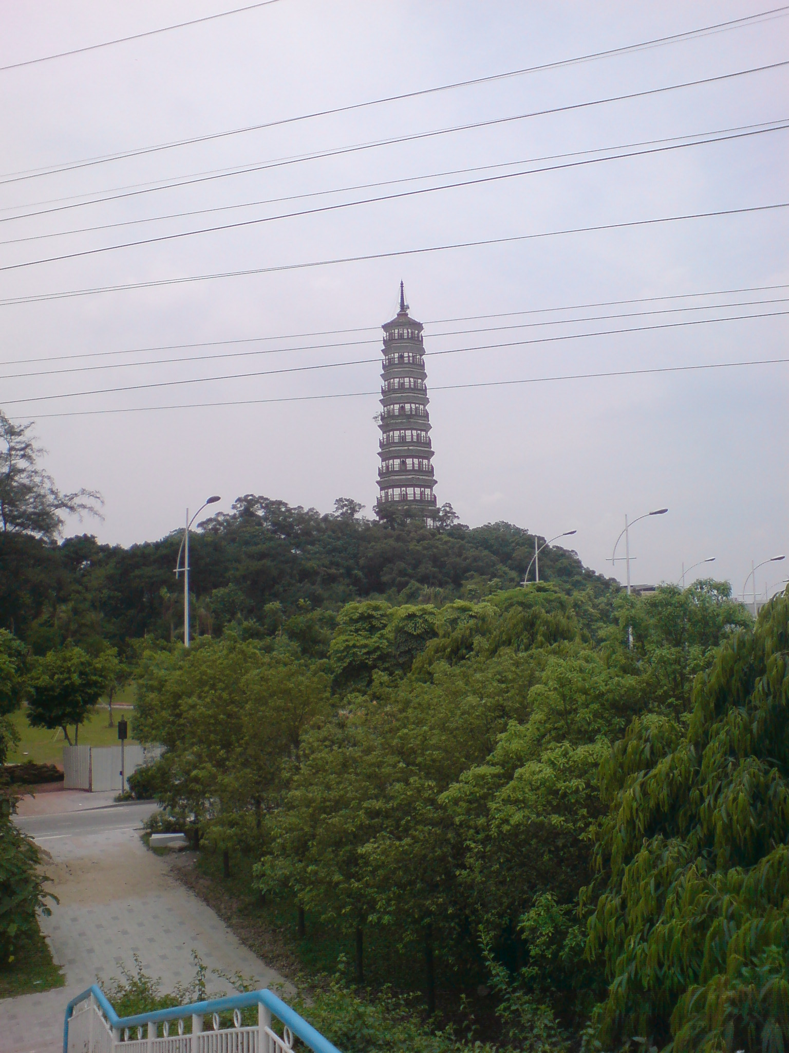 Pazhou Pagoda, Guangzhou, China